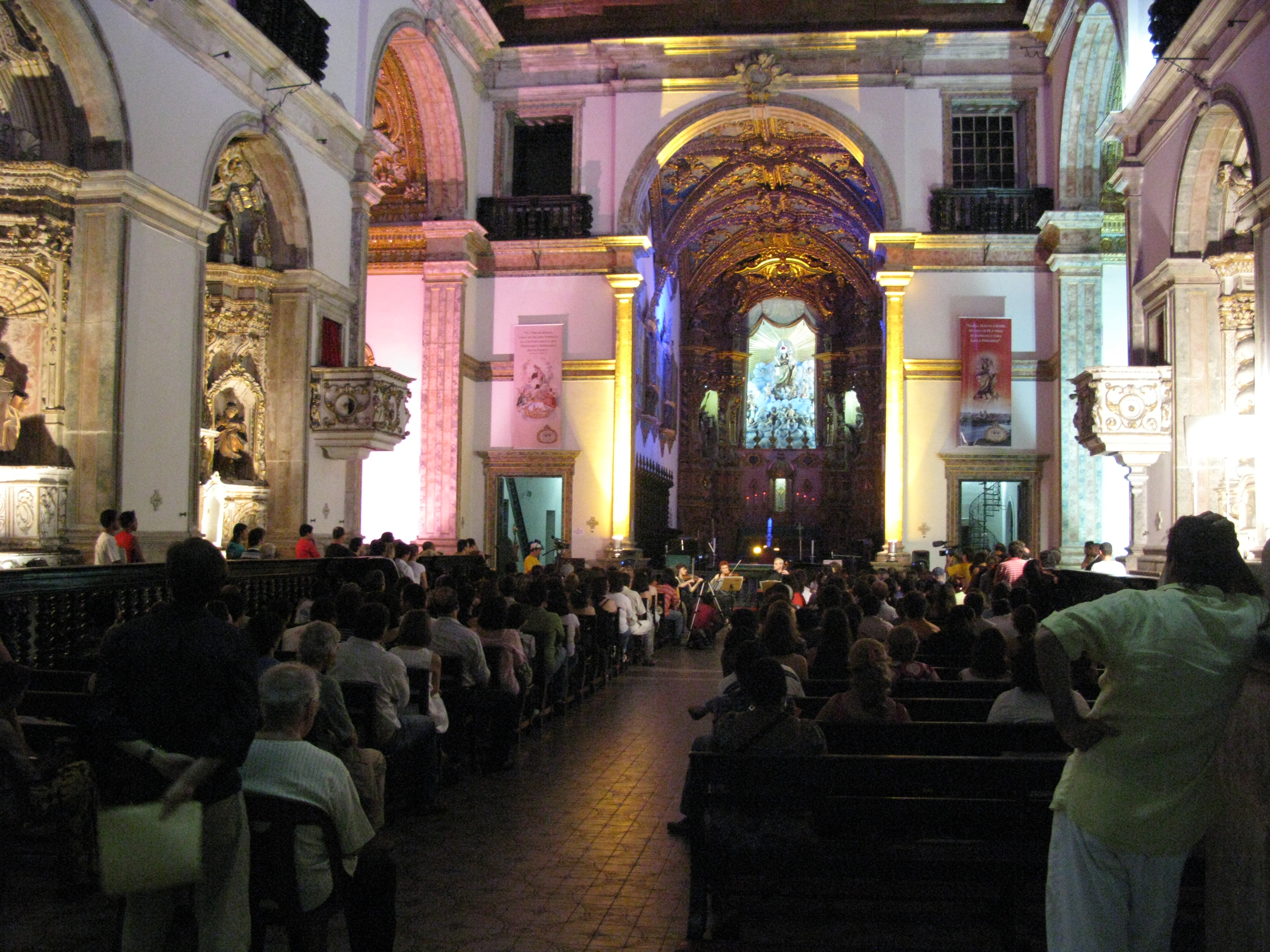 Church of Our Lady of Carmo - Recife, Pernambuco, Brazil